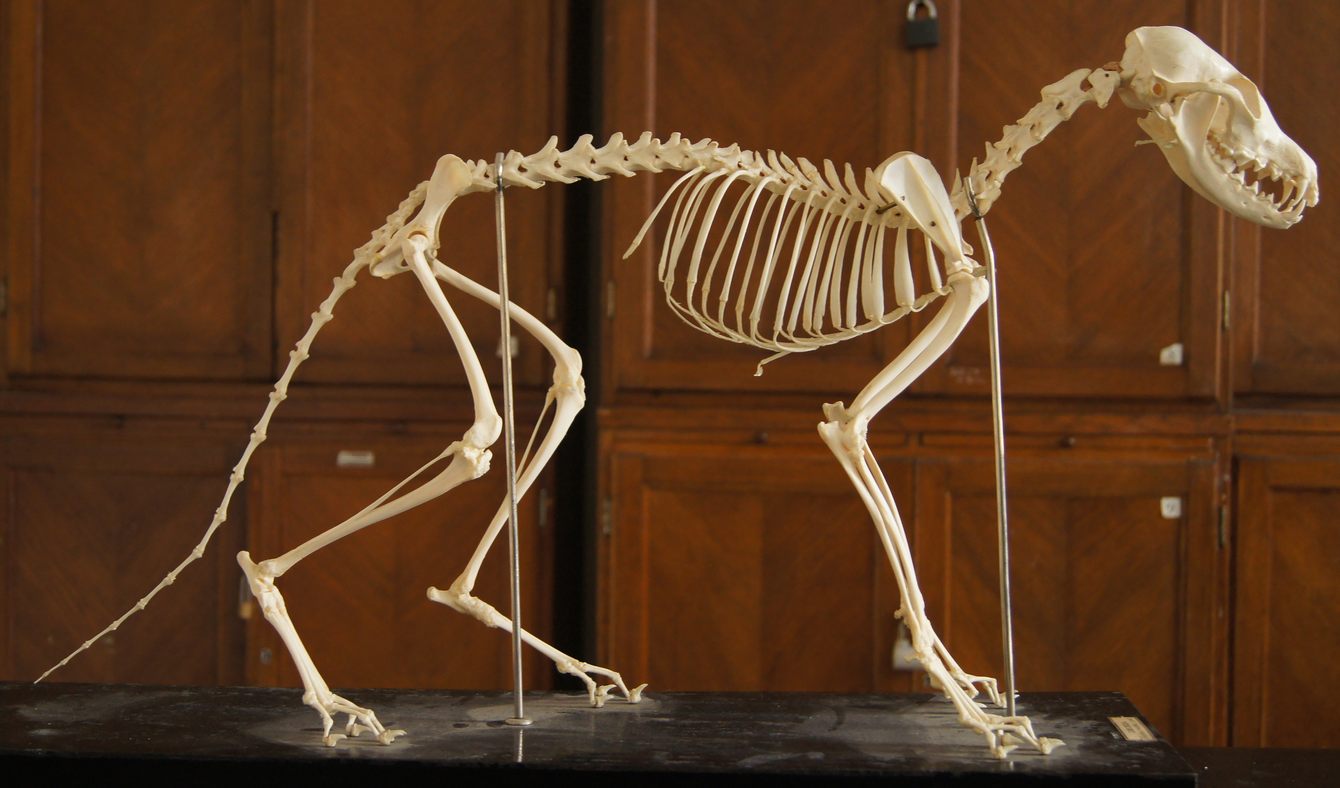 Fox (Vulpes vulpes) skeleton from the collection of Moscow State University Department of Biology